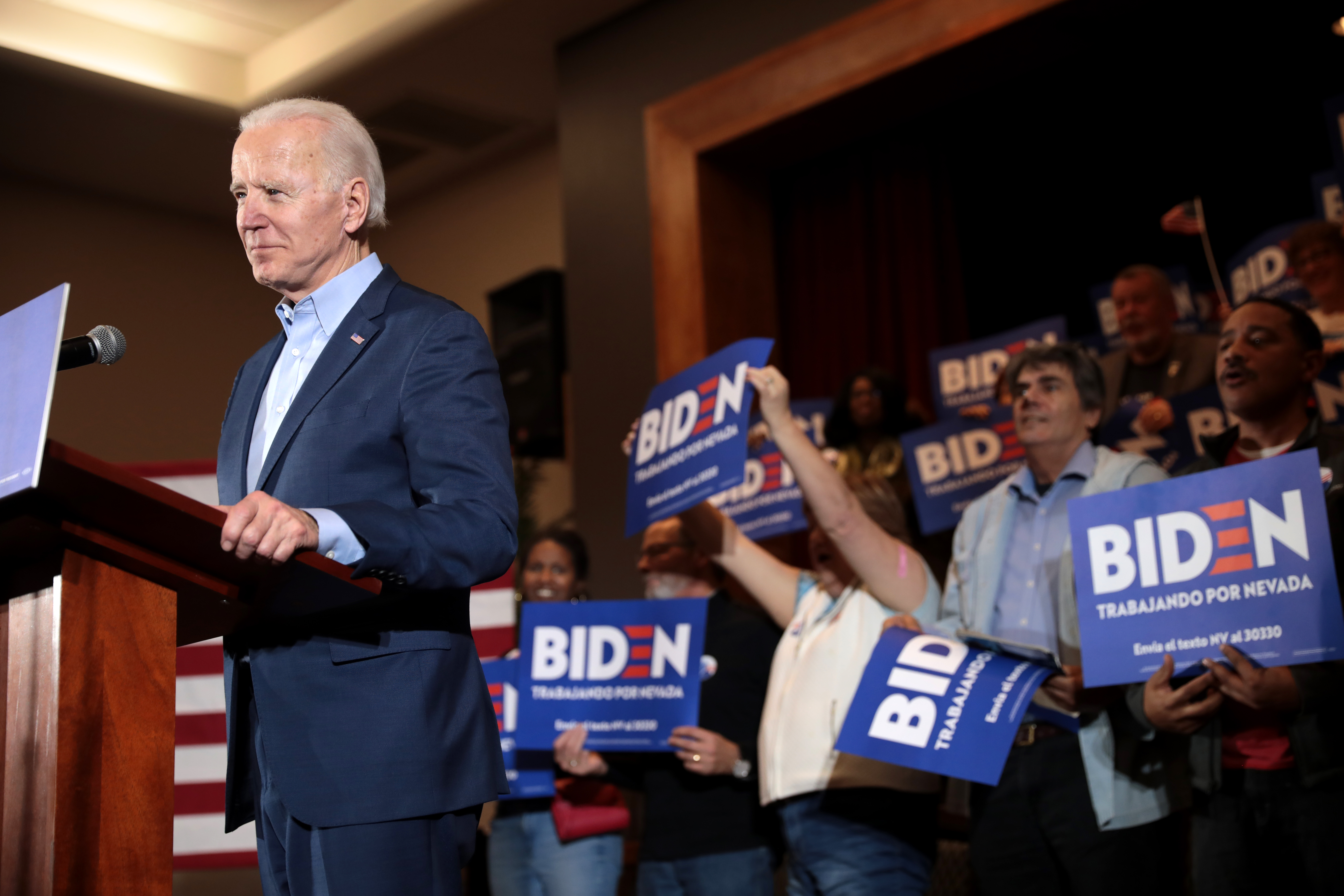 Former Vice President of the United States Joe Biden speaking with supporters at a community event at Sun City MacDonald Ranch in Henderson, Nevada.